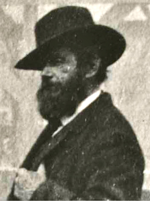 Seattle's First Potlatch. Villard, Henry. Visit. Sept. 14, 1883. Barbeque pit. 1. A.W. Piper. 2. Park Henderson. Called Seattle's first potlatch.